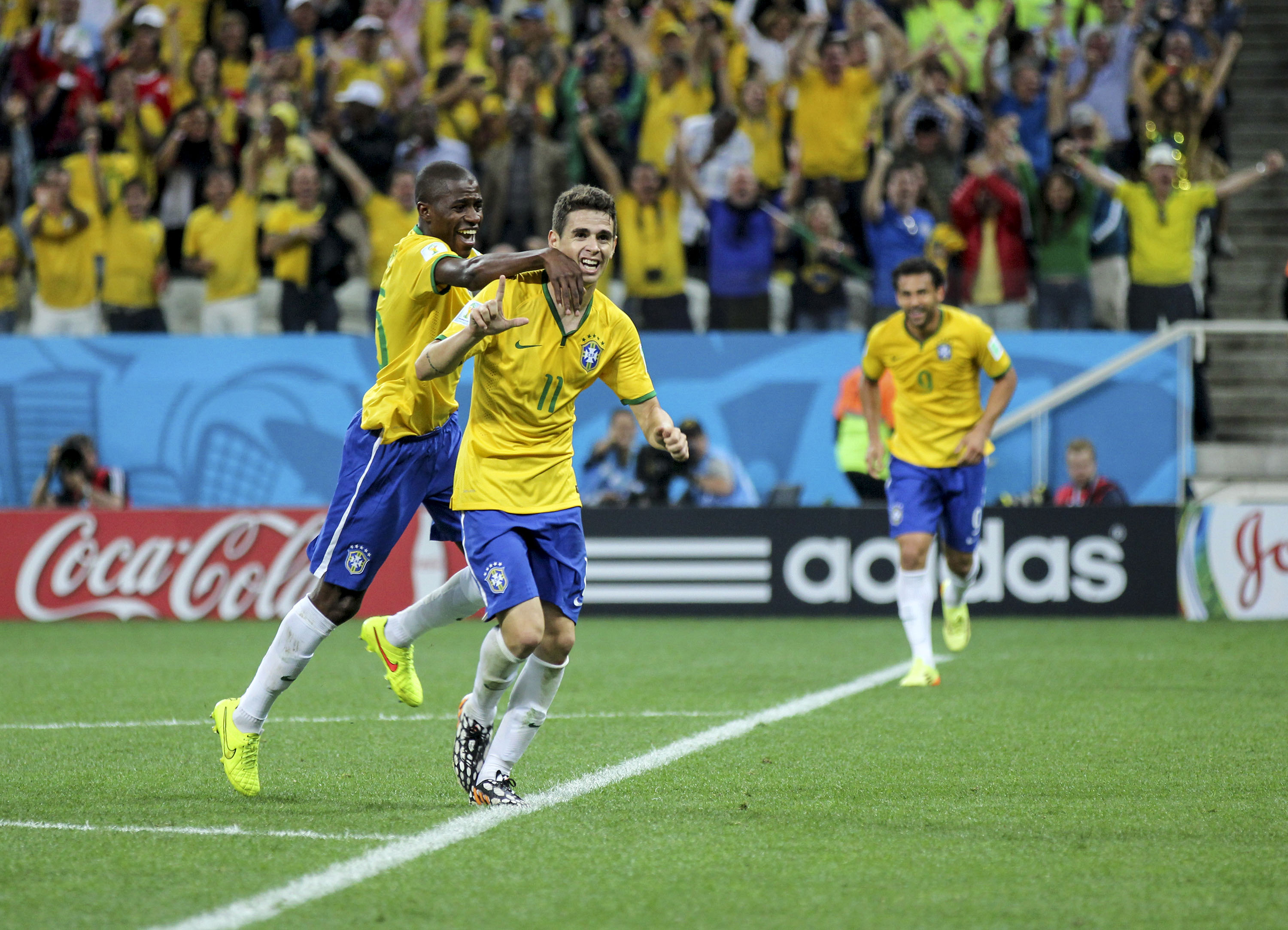 Brazil and Croatia match at the FIFA World Cup 2014-06-12